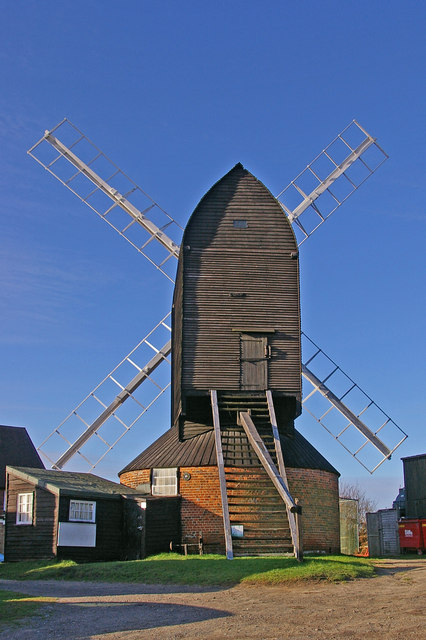 Photograph of Reigate Heath windmill